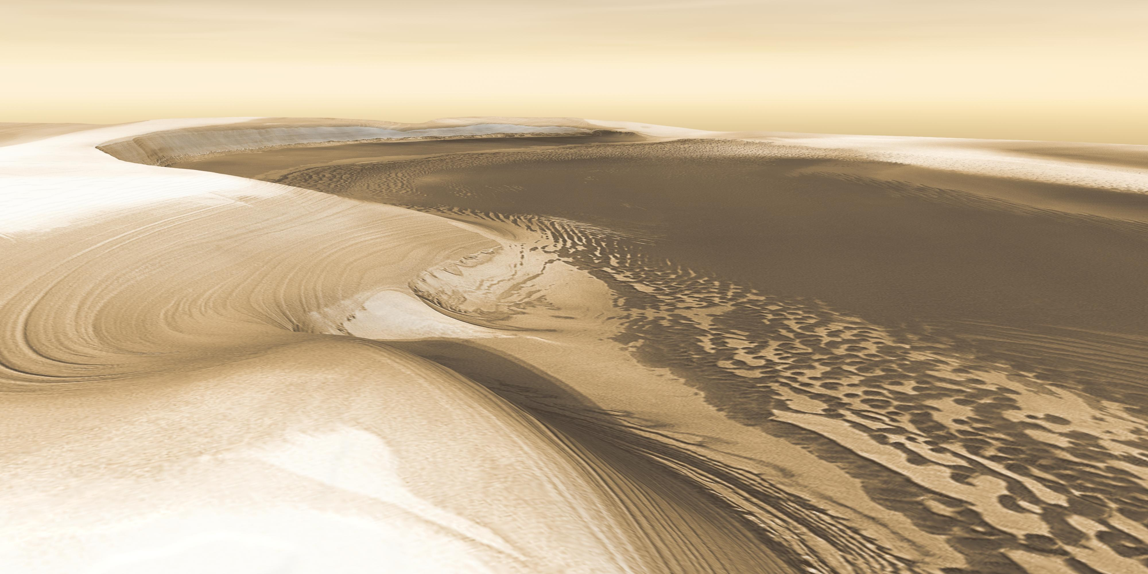 Chasma Boreale, a long, flat-floored valley, cuts deep into Mars' north polar icecap. Its walls rise about 1,400 meters, above the floor. Where the edge of the ice cap has retreated, sheets of sand are emerging that accumulated during earlier ice-free climatic cycles. Winds blowing off the ice have pushed loose sand into dunes and driven them down-canyon in a westward direction. This scene combines images taken during the period from December 2002 to February 2005 by the Thermal Emission Imaging System instrument on NASA's Mars Odyssey was part of a special series of images marking the orbiter as the longest-working Mars spacecraft in history.